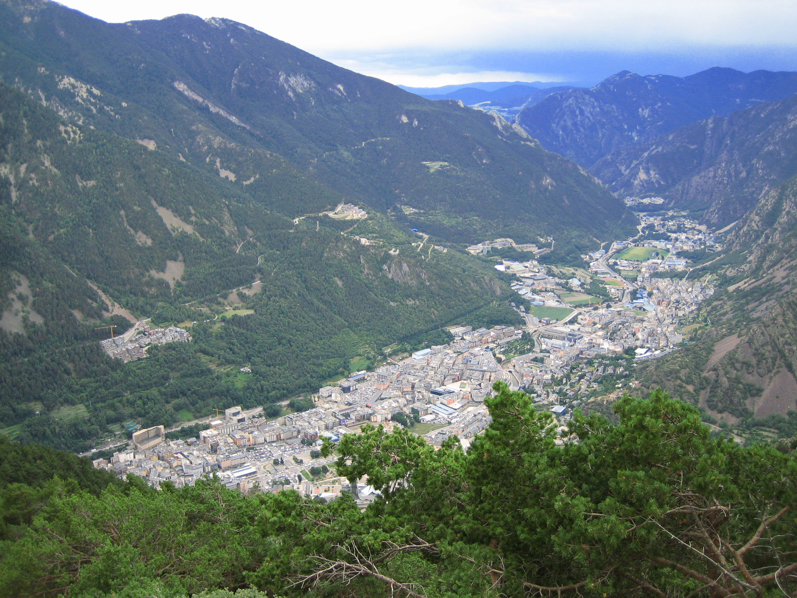 Escaldes-Engordany and Andorra la Vella (Andorra) from Pic de Padern summit, Anyós, La Massana